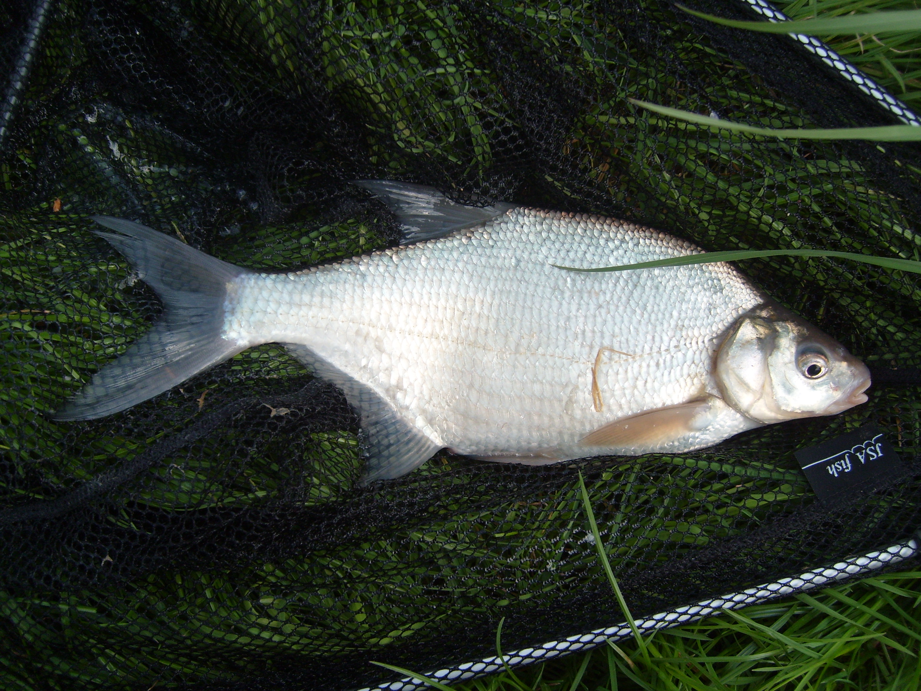 Carp bream (Abramis brama)